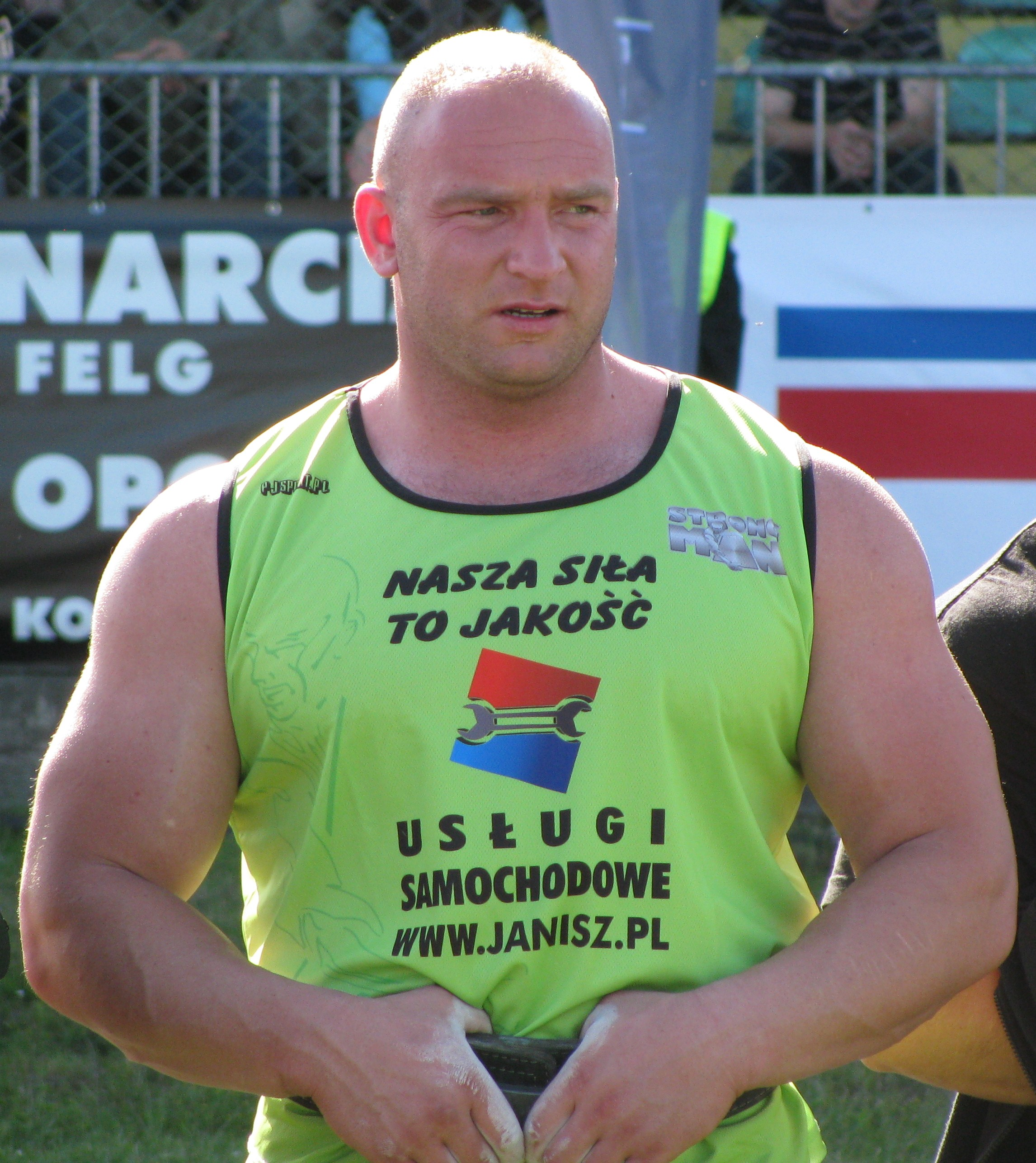 Tyberiusz Kowalczyk - a strength athlete from Poland